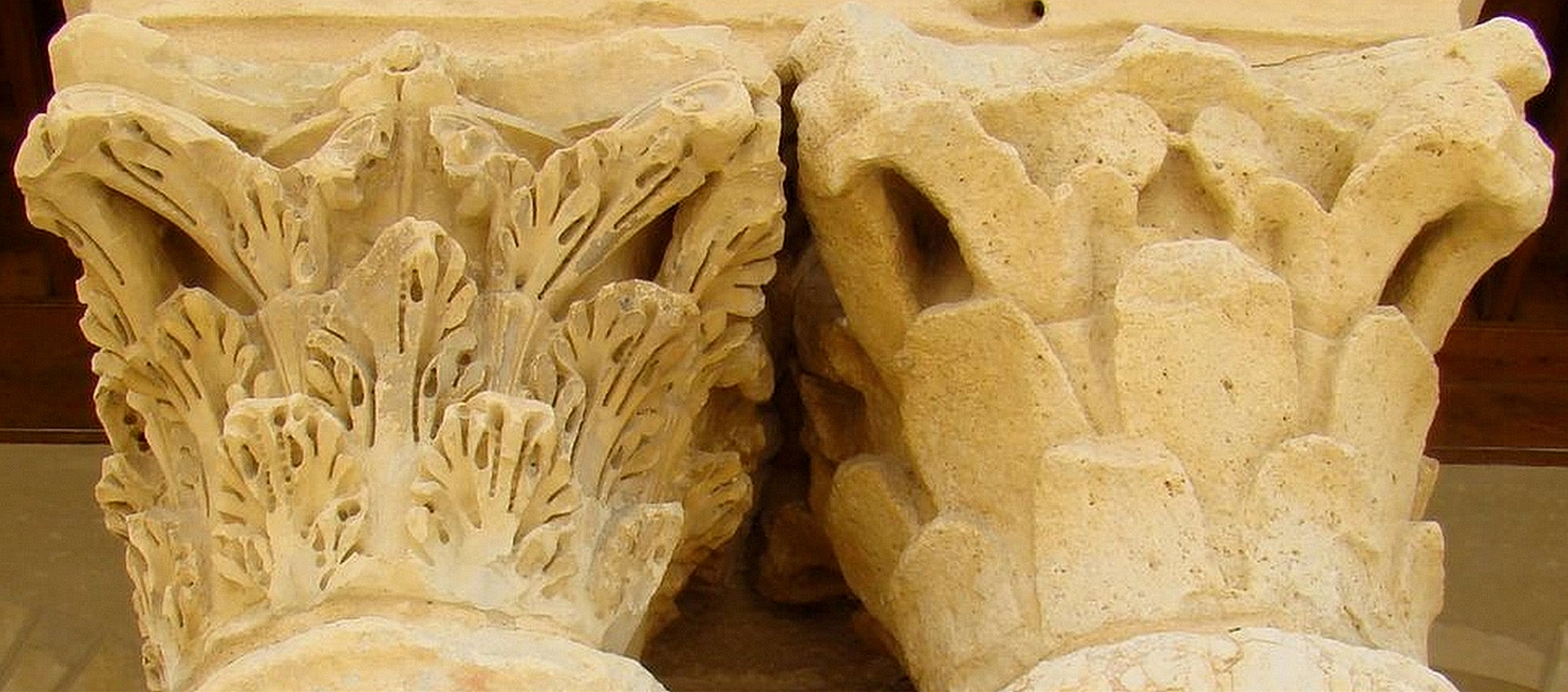 Close up of two ancient Corinthian capital of the eastern portico of the courtyard in the Great Mosque of Kairouan, in Tunisia.